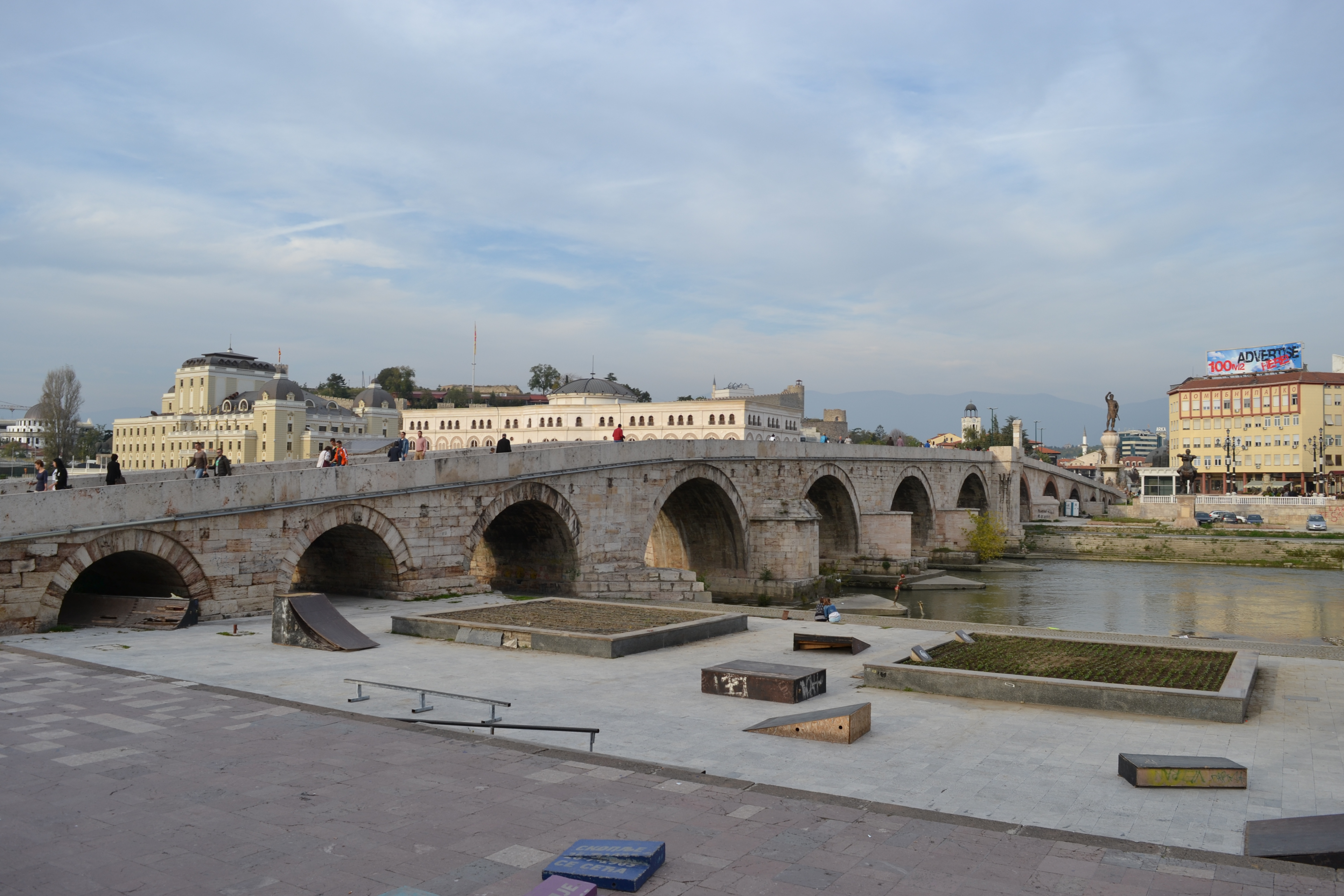 Picture of the Stone Bridge across the Vardar River in Skopje.